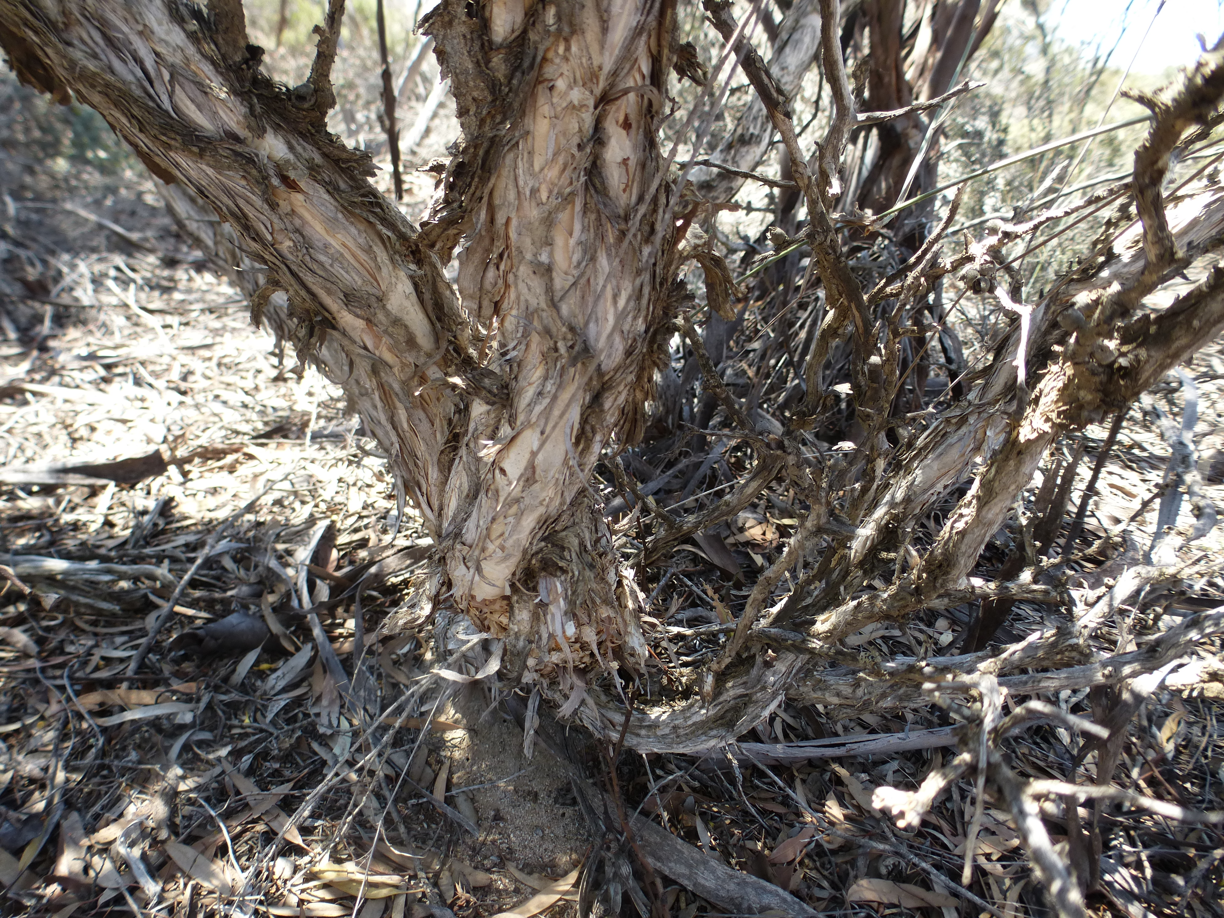 Melaleuca podiocarpa growing near Lake Grace